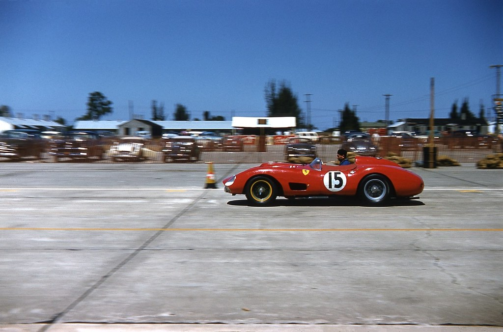 Ferrari 290 S s/n 0656 practicing at 1957 Sebring. Driver is probably a mechanic. In the real race, it was driven by Masten Gregory and Lou Brero to a 4th place.[1]